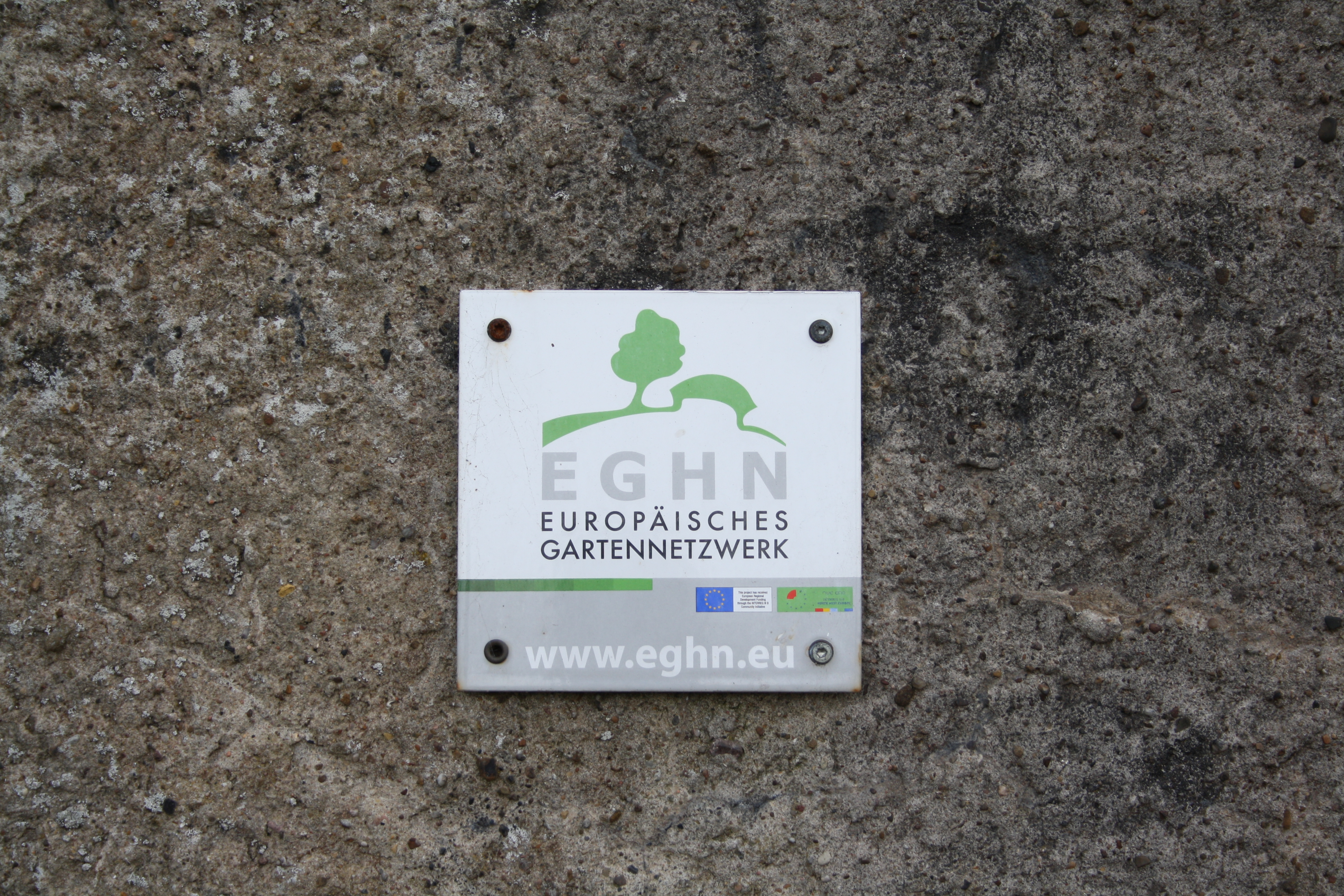 Böckel Castle in Rödinghausen, District of Herford, North Rhine-Westphalia, Germany.